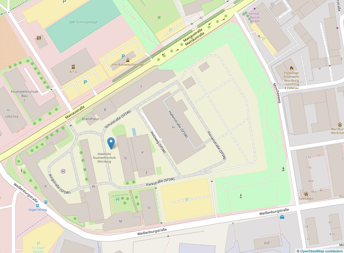 Map of the area formerly known as Hindenburg Kaserne